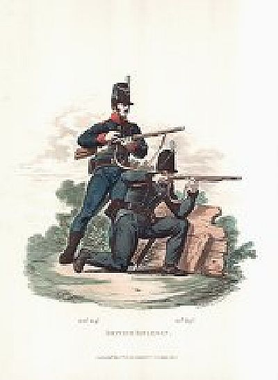 The 60th (Royal American) Regiment of Foot and 95th Regiment of Foot.